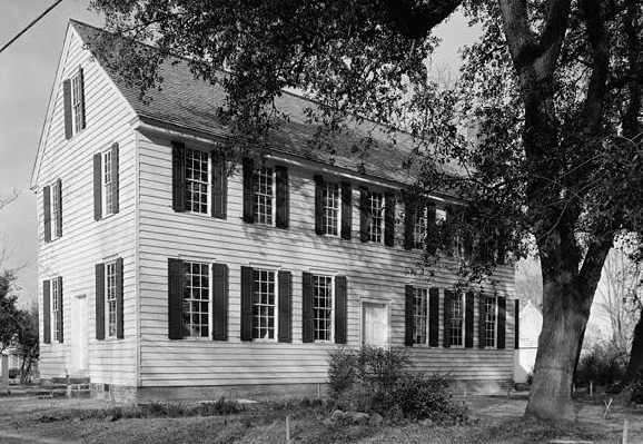 Palmer-Marsh House, Main Street, Bath (Beaufort County, North Carolina) (cropped)